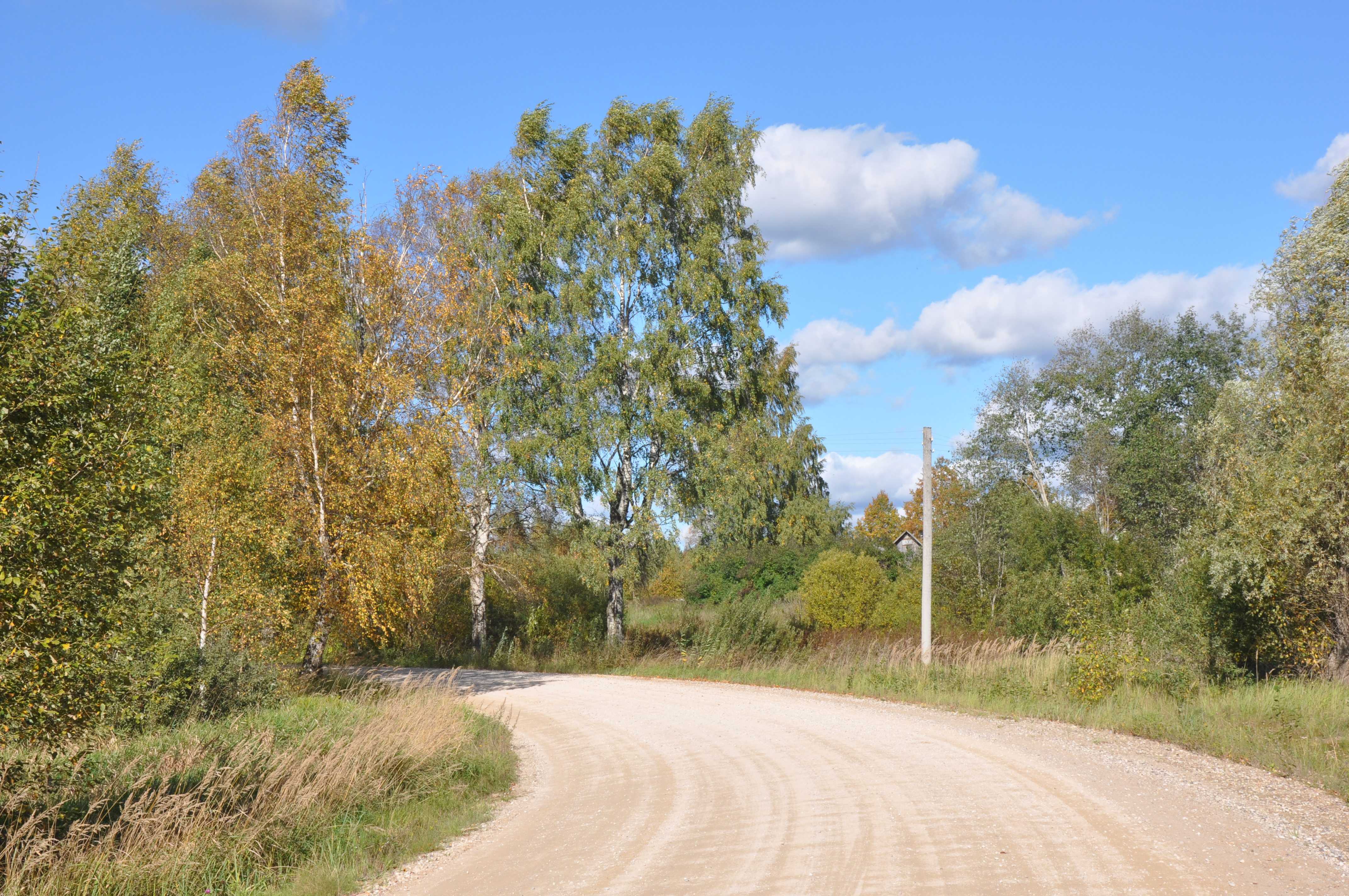 Road P32 near Bērzs village